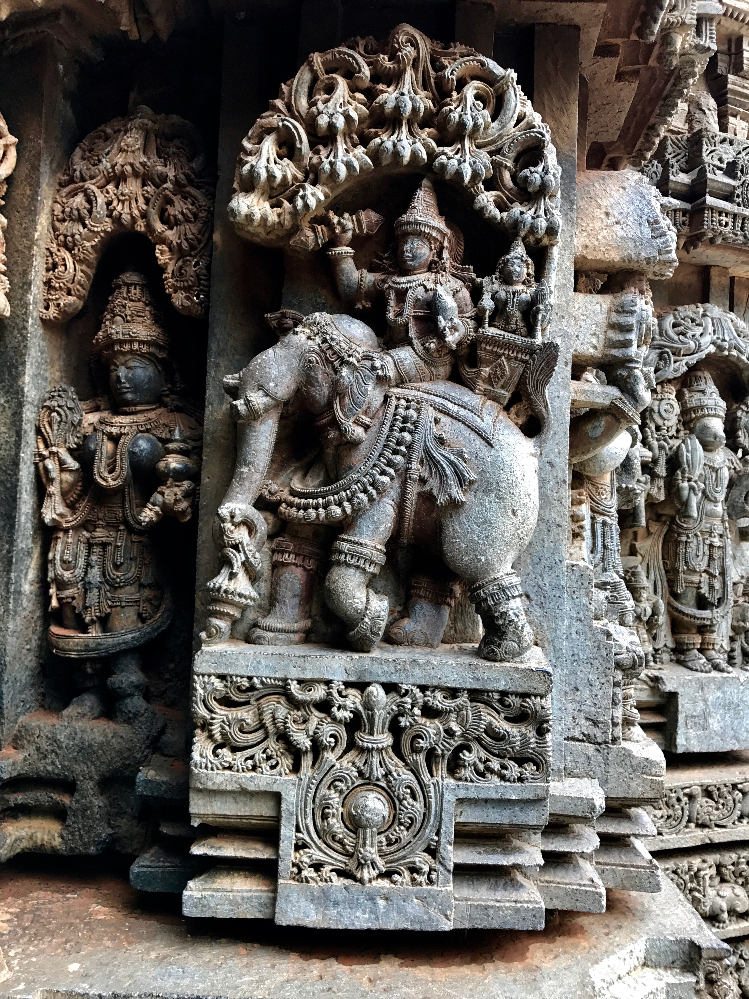 The Chennakesava temple, also called Kesava or Keshava temple, is a Vaishnava Hindu temple. It is located at Somanathapura (Somanathpur) in South Karnataka, in a small village on the banks of the river Cauvery, about 40 km from the city of Mysuru. The temple is one of the finest examples of Hoysala architecture and testament to the sophistication of Hindu art and architecture by the 12th-century. Completed by 1268 CE and sponsored by a commander of Hoysala king Narasimha III, it illustrates fine carvings with extraordinary details. The temple is set on a raised platform, with rotated squares that give it a star foundation shape. The sides of the raised platform show richly carved friezes of cavalry, elephants and numerous scenes from the Hindu epics and mythologies. The temple exterior towards the spire has sculptures of gods, mainly Vishnu avatars, but others including Shiva, Brahma and Vedic gods and goddesses. Some relief panels on the exterior have names of the sculptors inscribed.